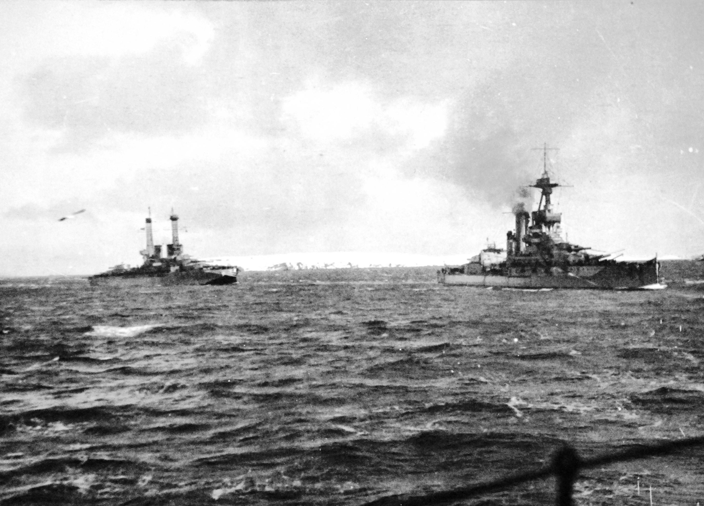 Lot 9609-32: Royal Navy (British) during the First World War. Royal Navy dreadnought battleship, HMS Iron Duke, followed by USS New York (BB 34) at Scapa Flow, probably during the surrender of the German Fleet in November 1918. Collection was transferred from a British government source in 1920 to the Library of Congress. (9/18/2015).